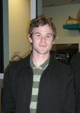 Aaron Ashmore, Canadian film and television actor.